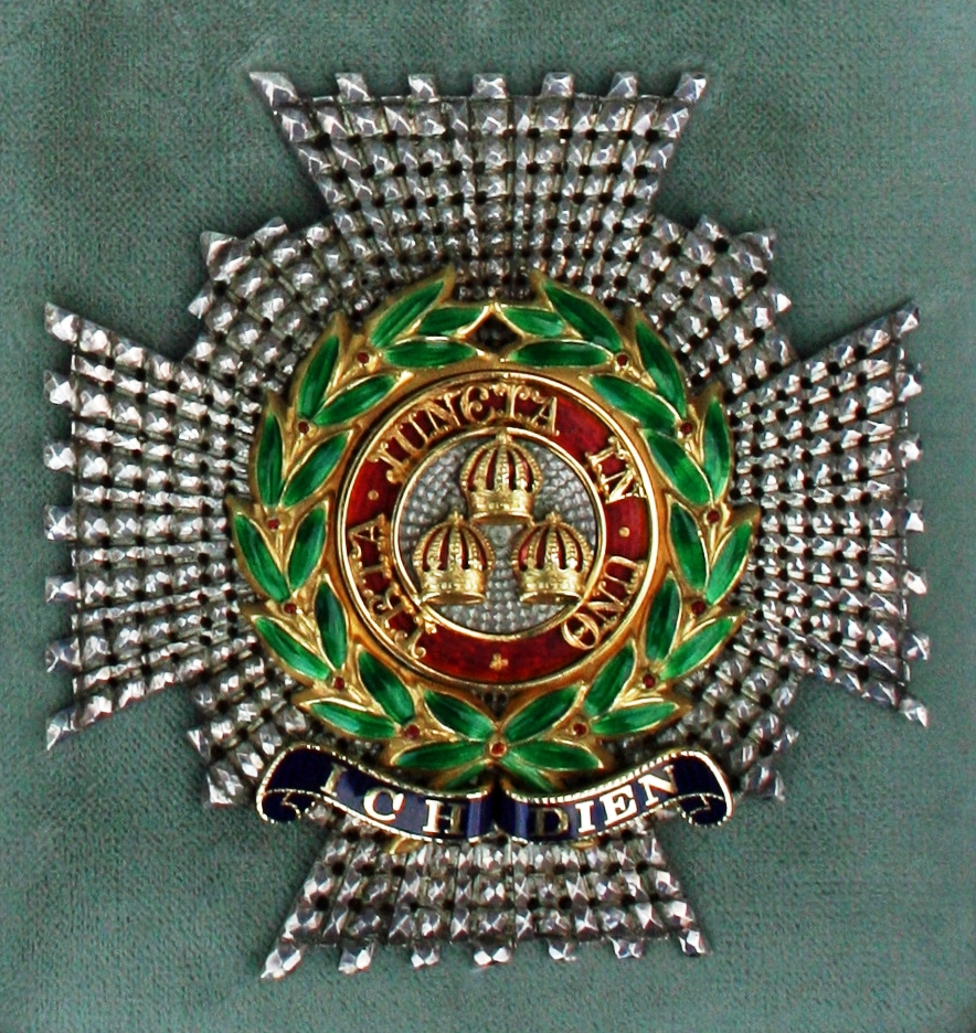 This is the breast star of the Order of the Bath. This image comes from my own personal collection, and I hereby release it into the public domain.